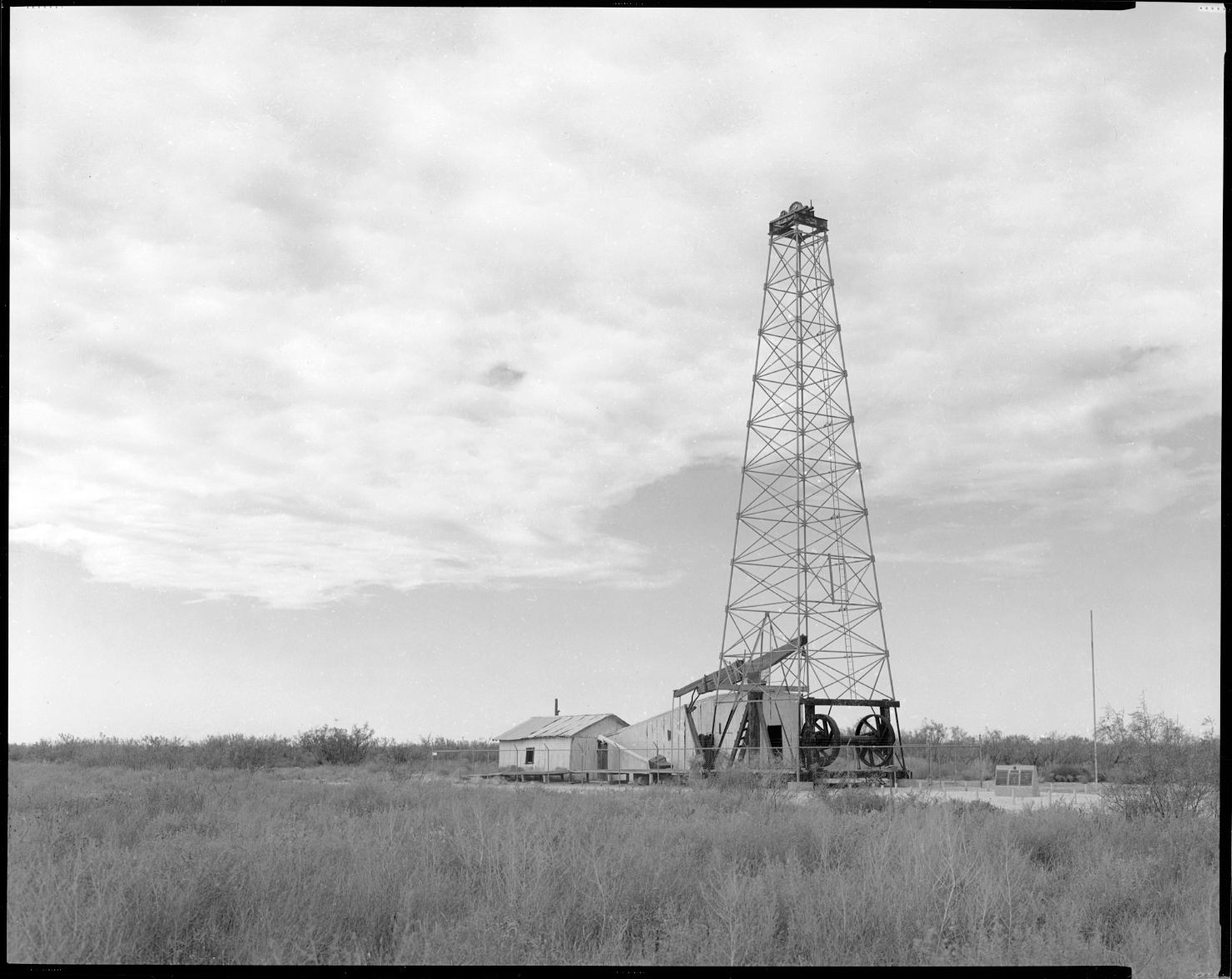 Oil tower, Texon Texas